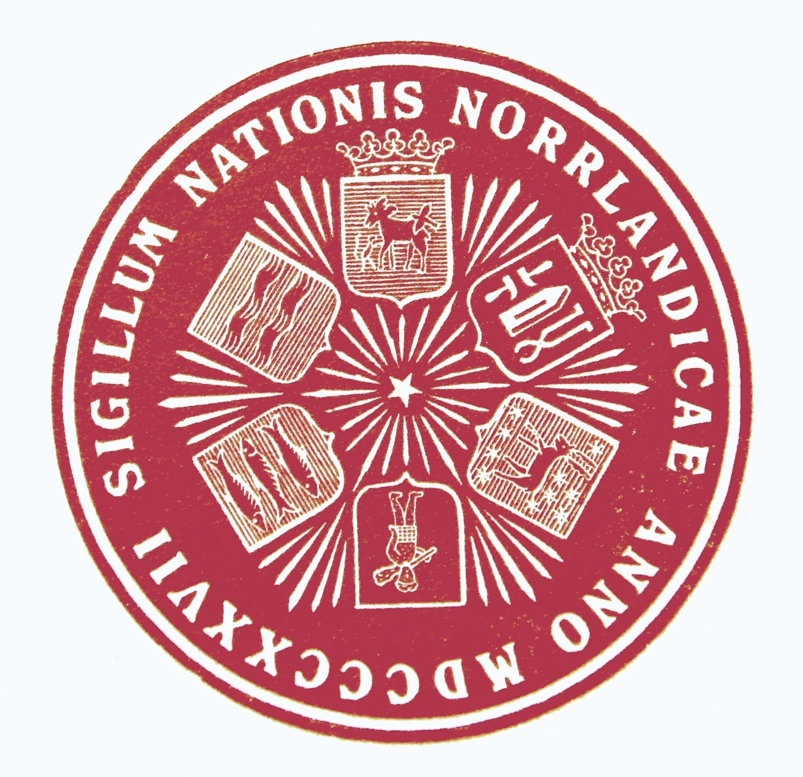 Norrlands nations logotype created 1830